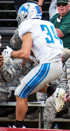 Zach Zenner in 2018 (cropped using scissor tool)